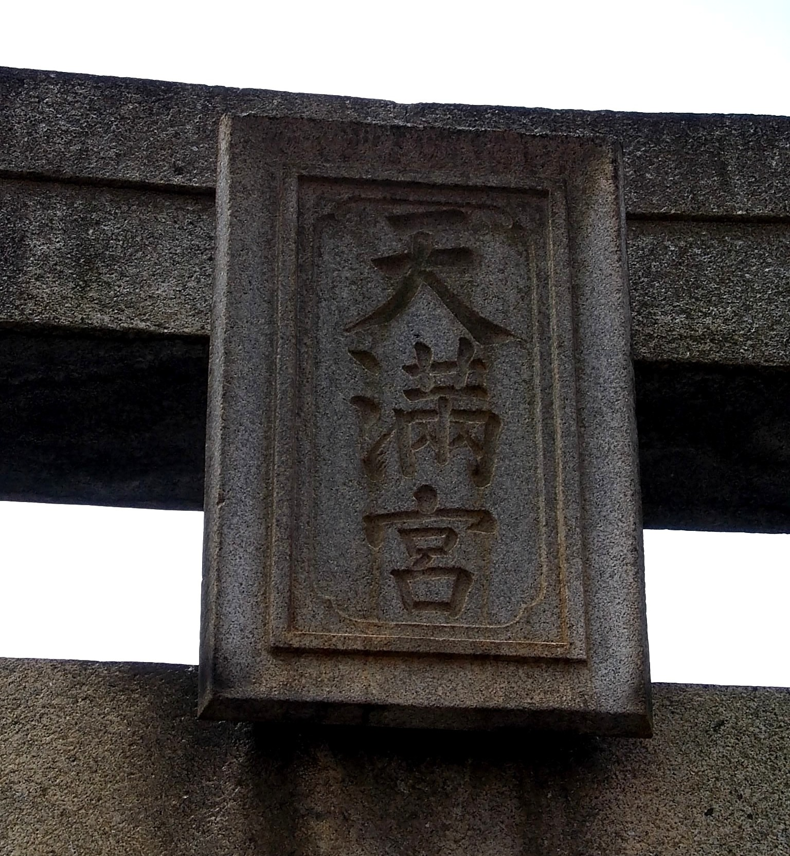 Name plate at Suikyo Shrine written by Kohki Hirota when he was 11 years old